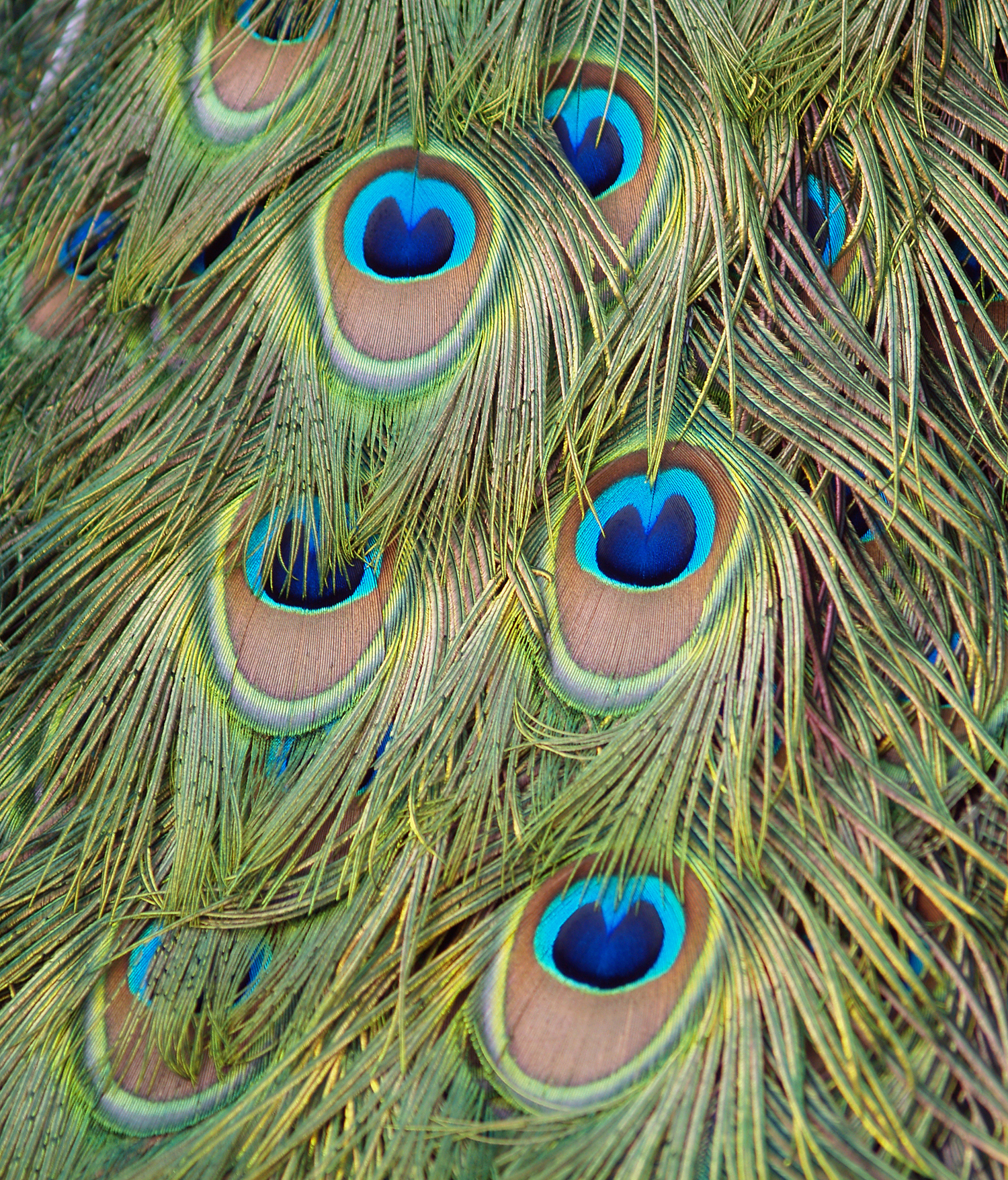 Feathers of a Blue Peafowl (Pavo cristatus)